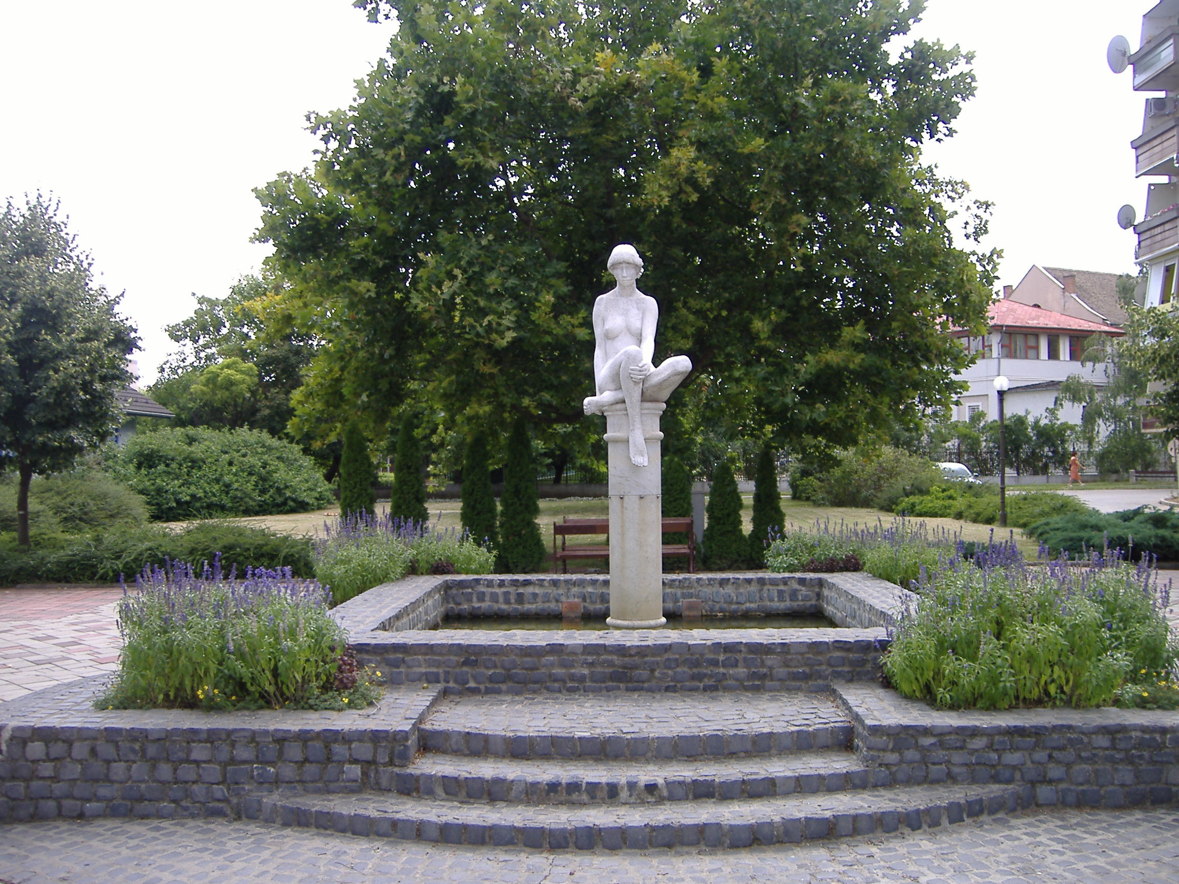 The Muses' Fountain in Makó, Hungary, created by Mihály Fritz.